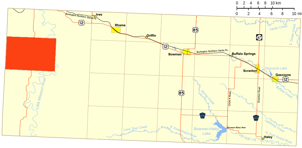 Map of Bowman County, ND, with Sunny Slope Township highlighted